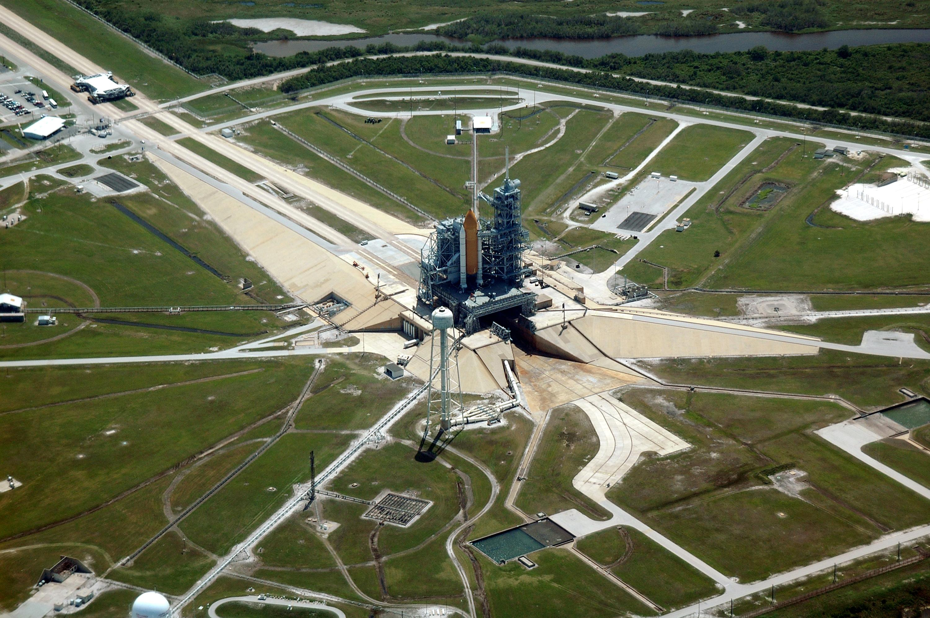 An aerial view of Launch Pad 39B and surrounding area at NASA's Kennedy Space Center, showing the Space Shuttle Discovery at center.